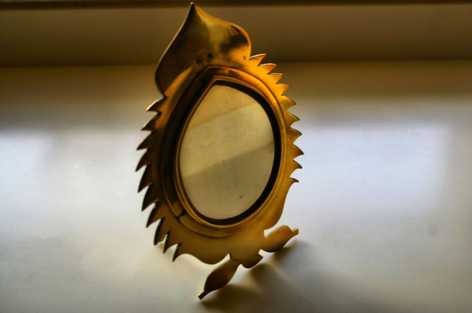 read more at